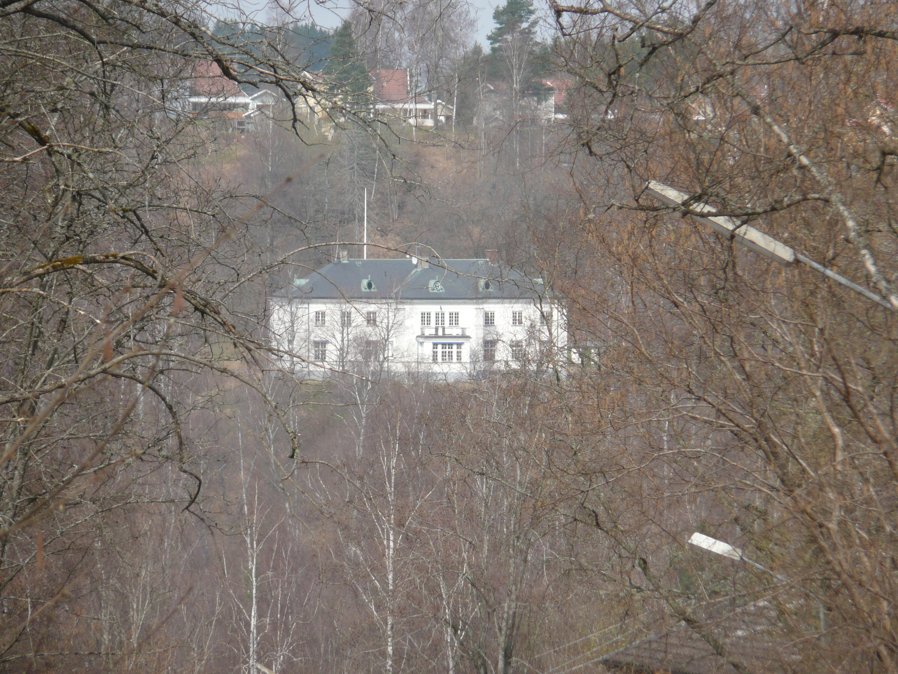 Former residence of the factory owner in Norrahammar, Sweden